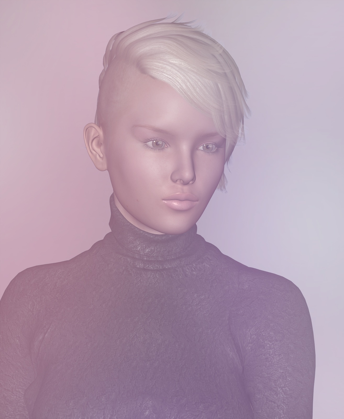 LaTurbo Avedon Self Portrait, 2013